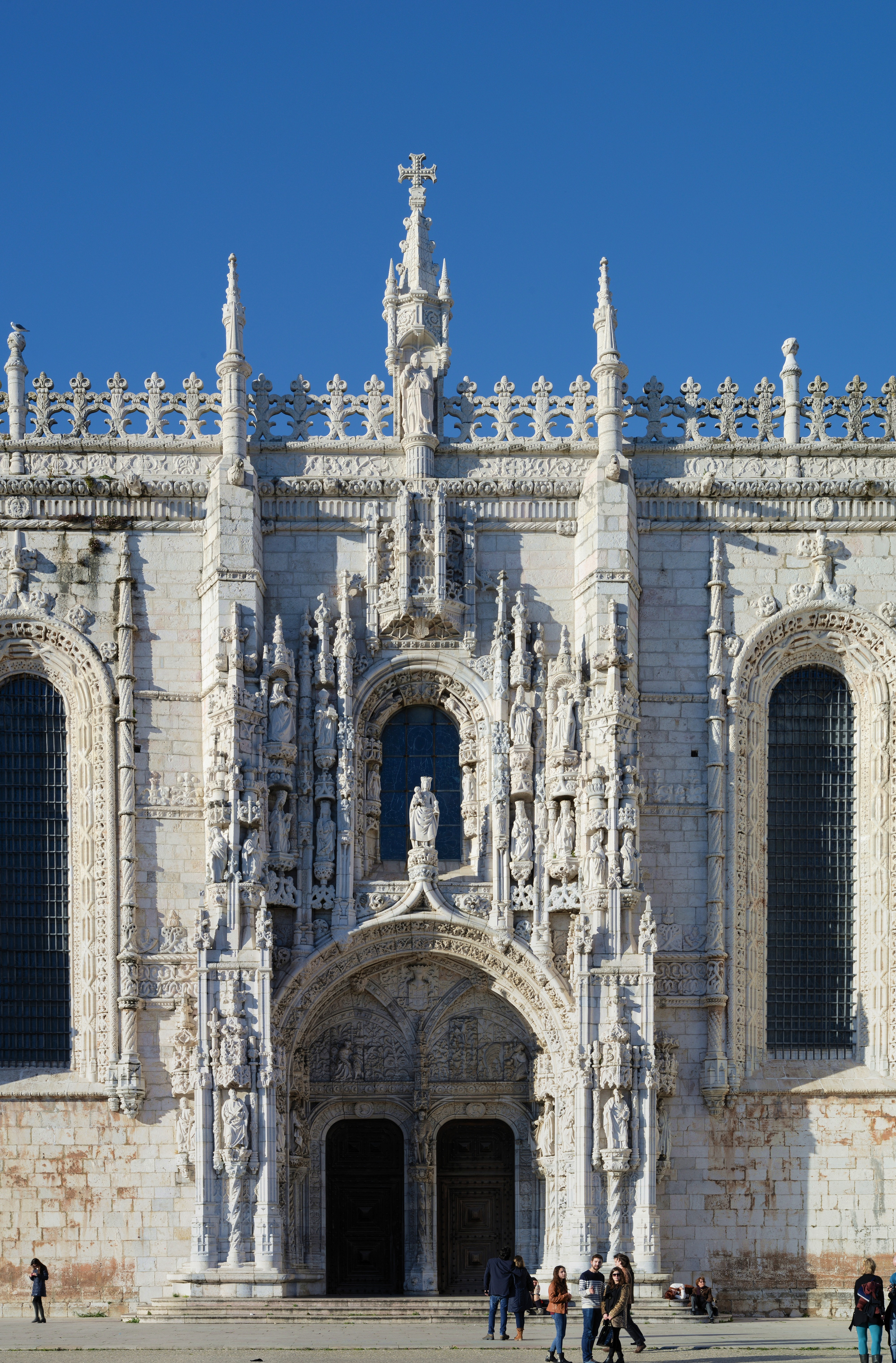 Main portal of Jerónimos Monastery, Lisboa, Portugal